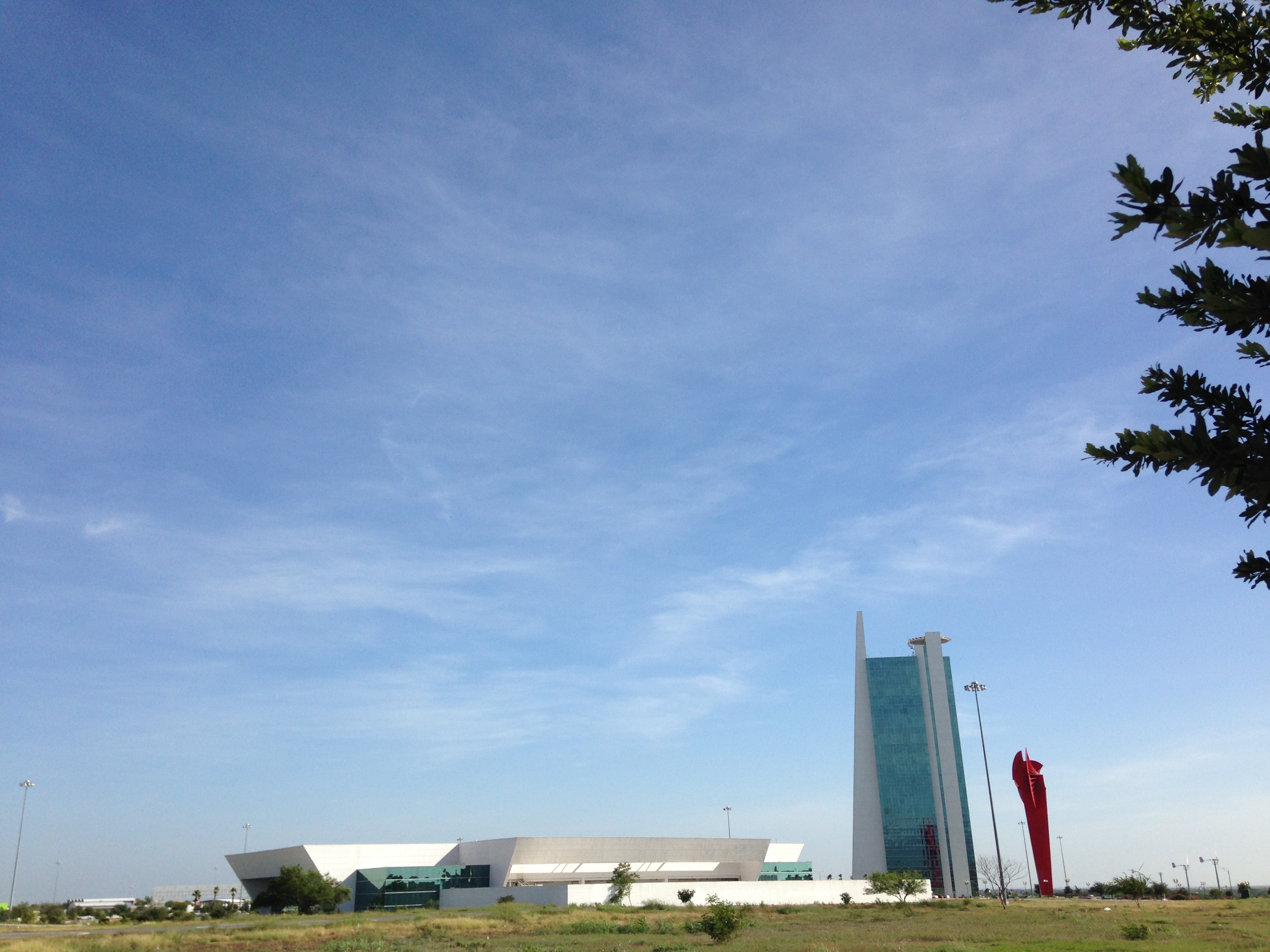 Panoramica del parque Bicentenario en Ciudad Victoria